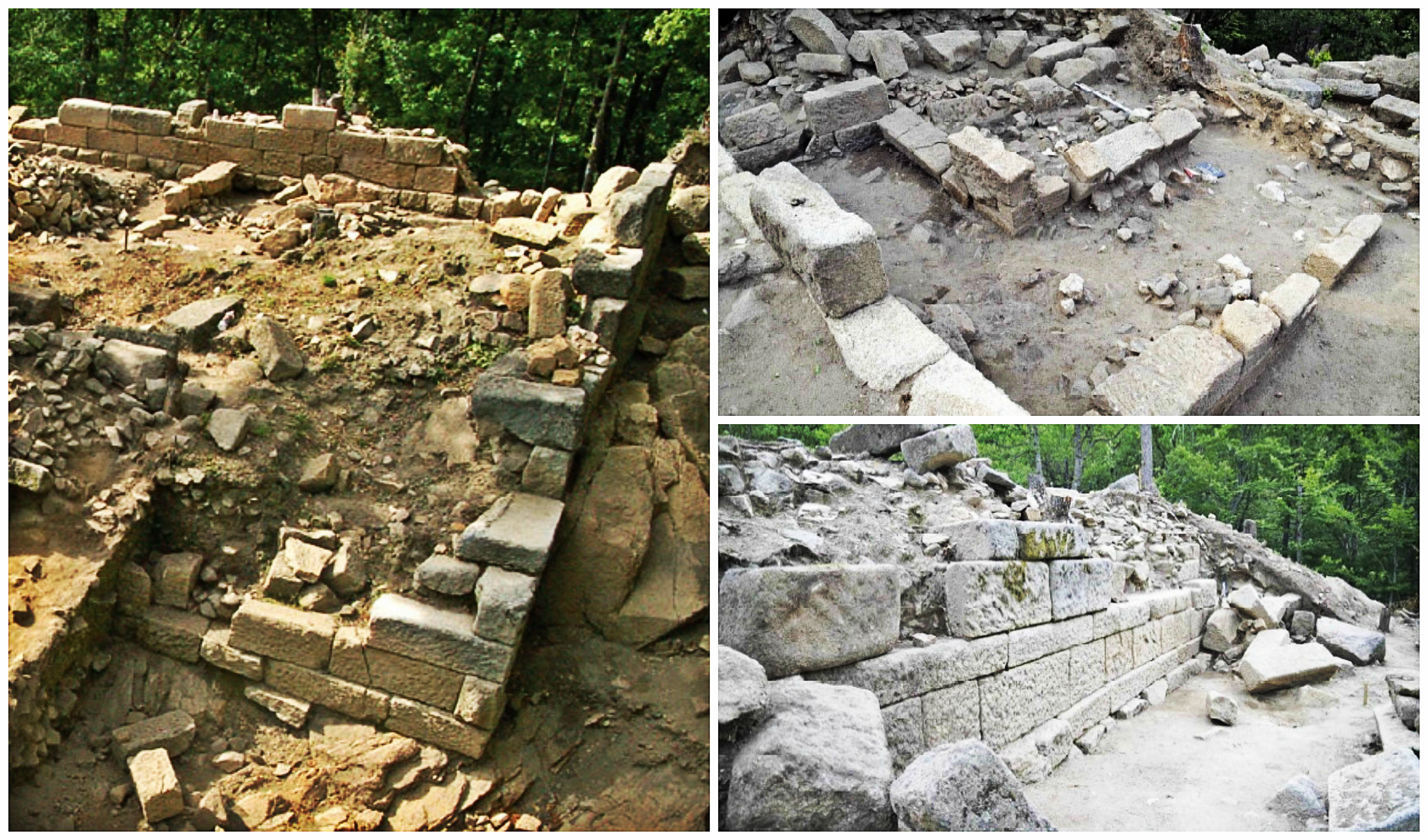 Thracian Residence Smilovene Koprivshtitza BG